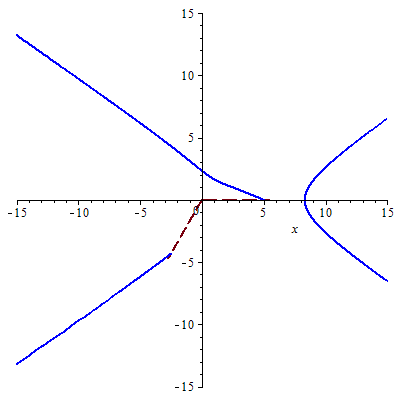 Example of generalized conic in the sense in which the term was used by Tom M. Apostol and Mamikon A. Mnatsakanian in their study of curves drawn on the surfaces of right circular cones. Parameter values: r_0=5, lambda=1.6, k=1.5